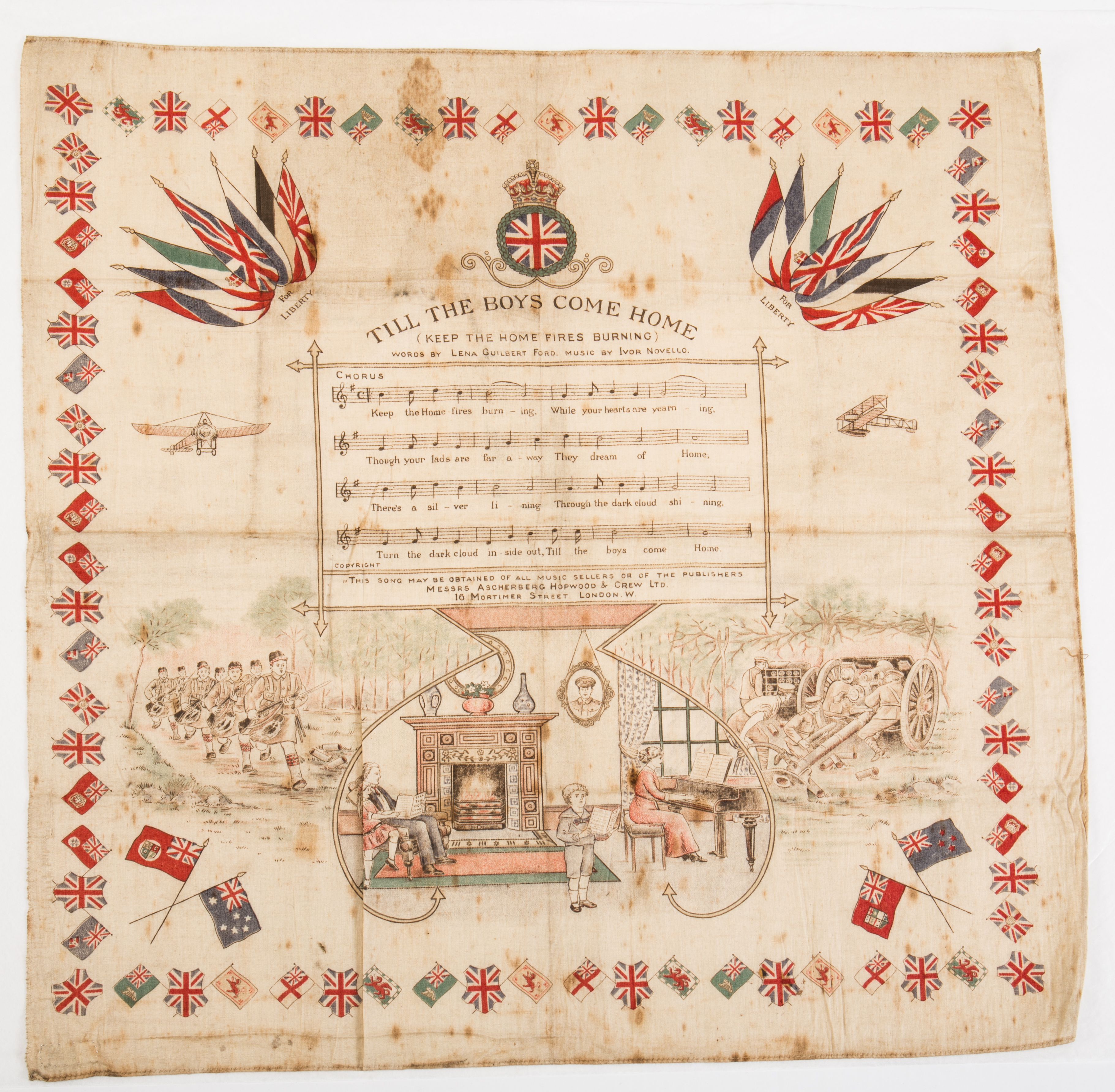 Printed souvenir cloth- Keep the Home Fires Burning, WW1 cotton cloth; square; hemmed; printed with words and music- Keep the Home Fires Burning